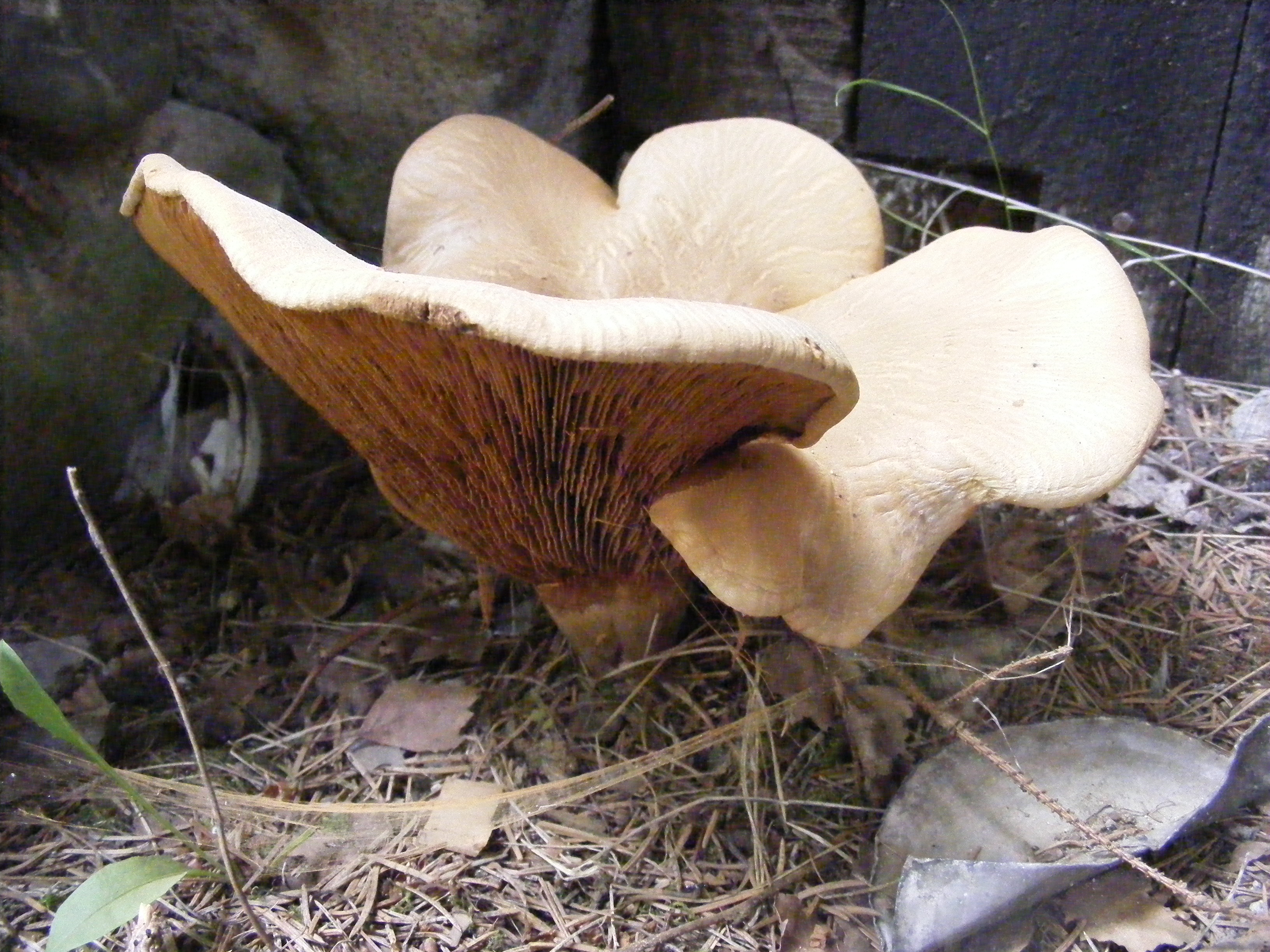 Paxillus involutus